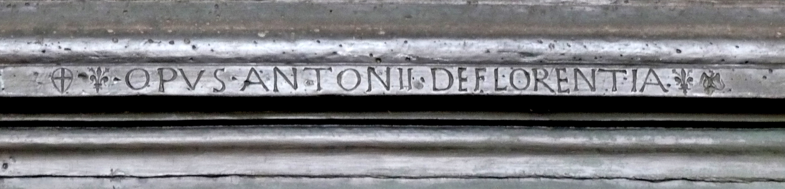 Signature of Filarete, porta del Filarete, San Pietro, Rome.